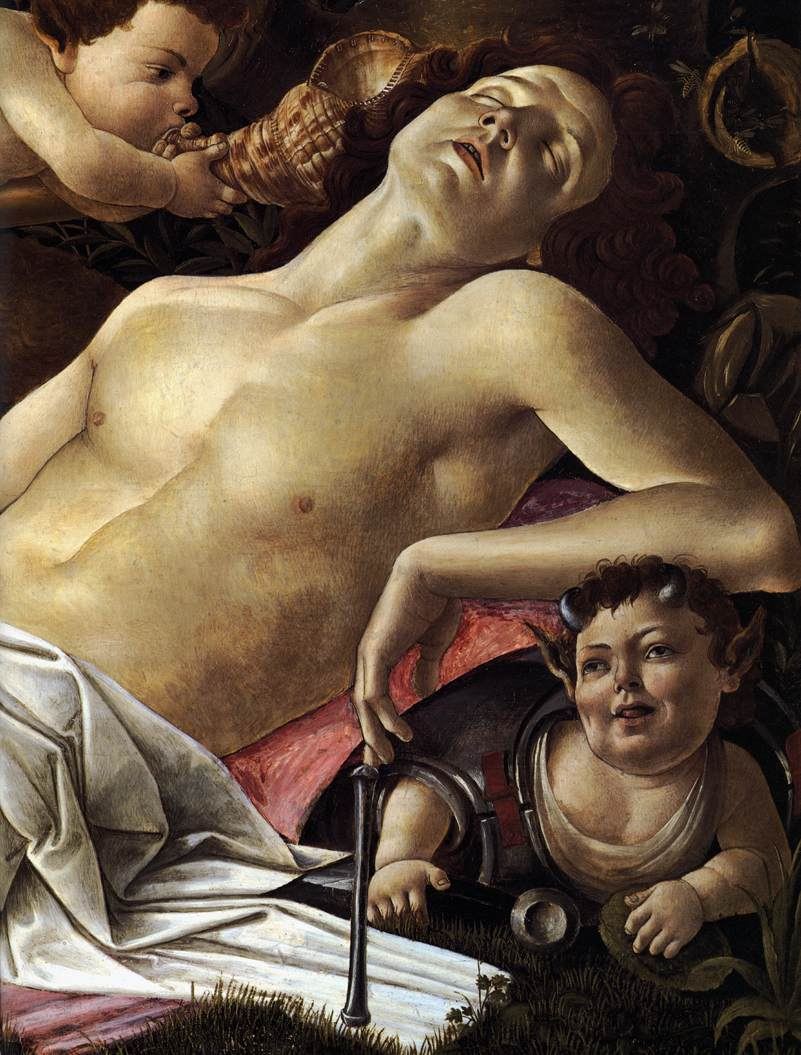 BOTTICELLI, Sandro Venus and Mars Tempera on wood, 69 x 173,5 cm National Gallery, London